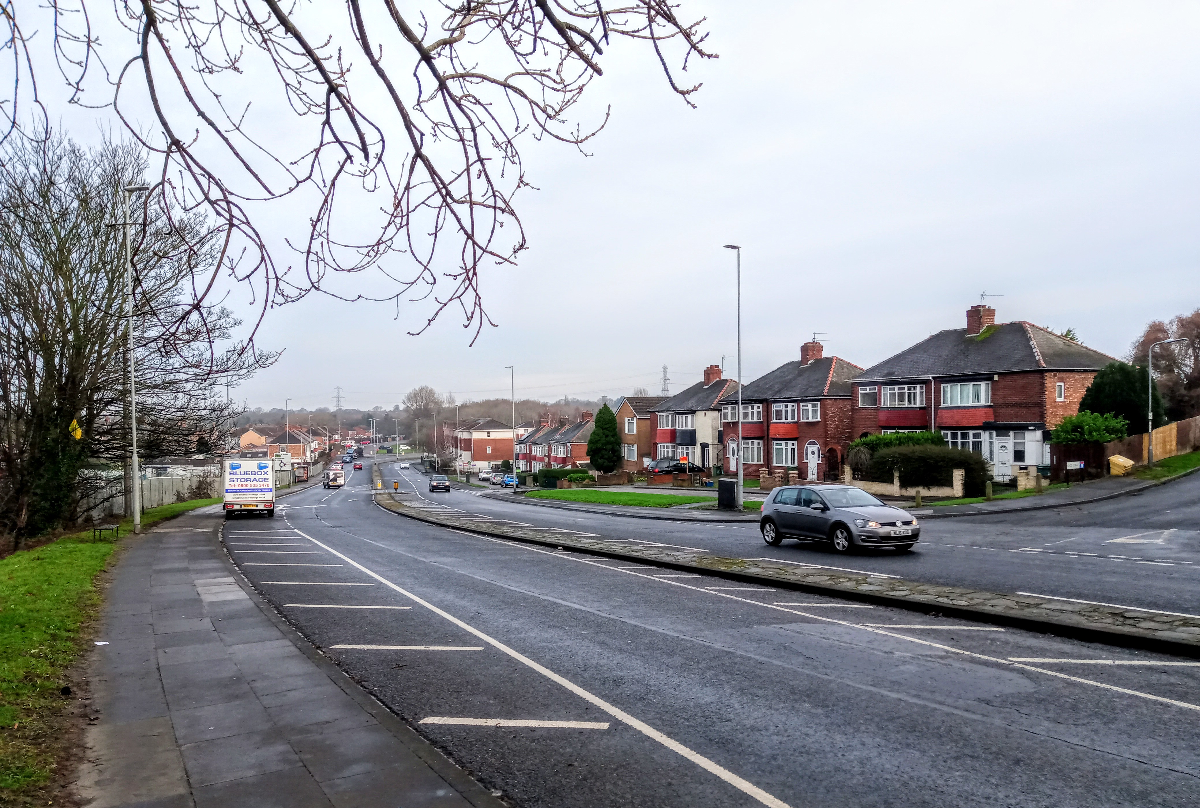 Norton